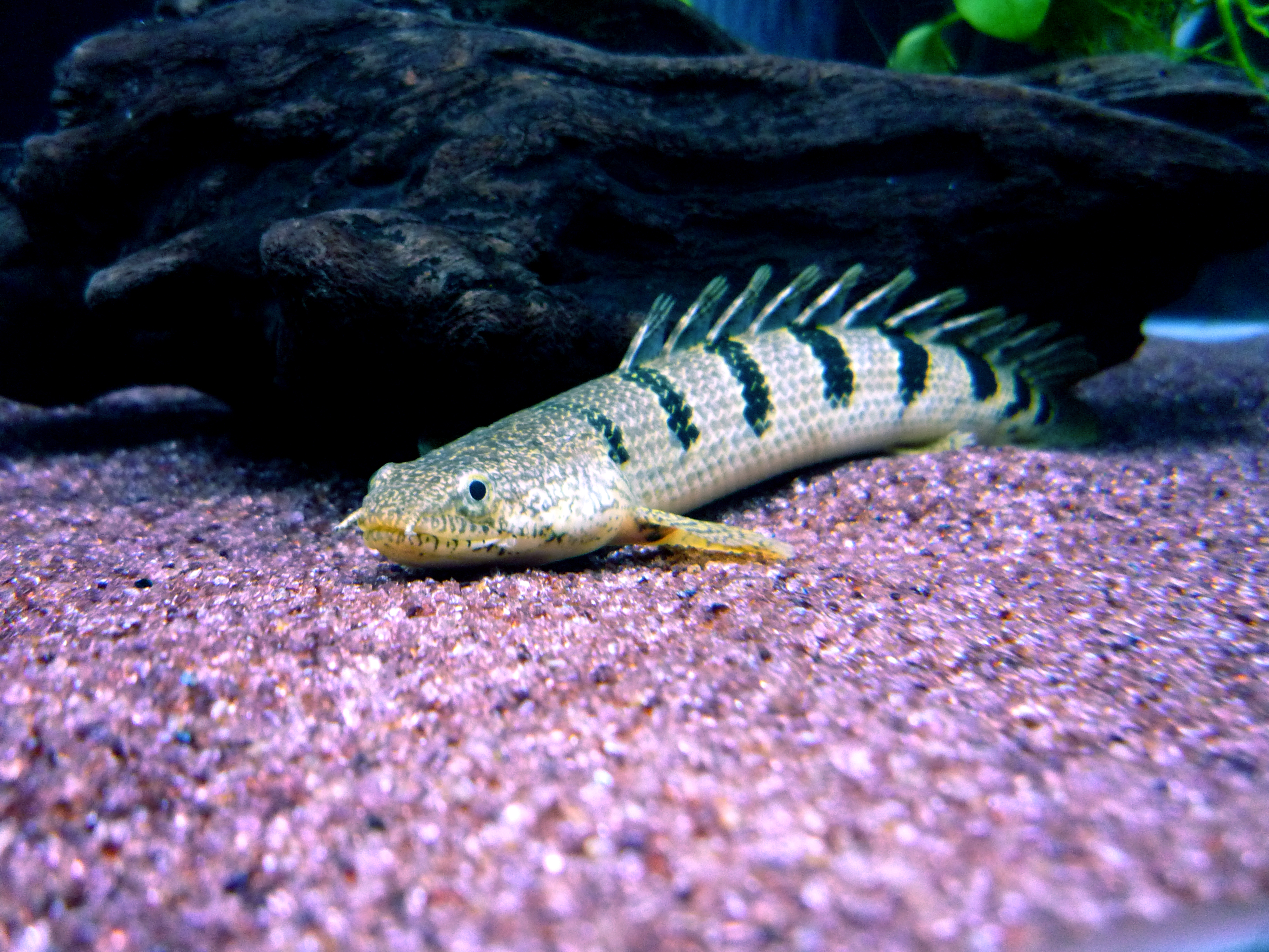 Barred bichir